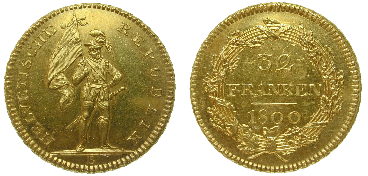 32 Franken coin of the Helvetic Republic (15.28 g, 29 mm diameter), Bern mint. Dated 1800.